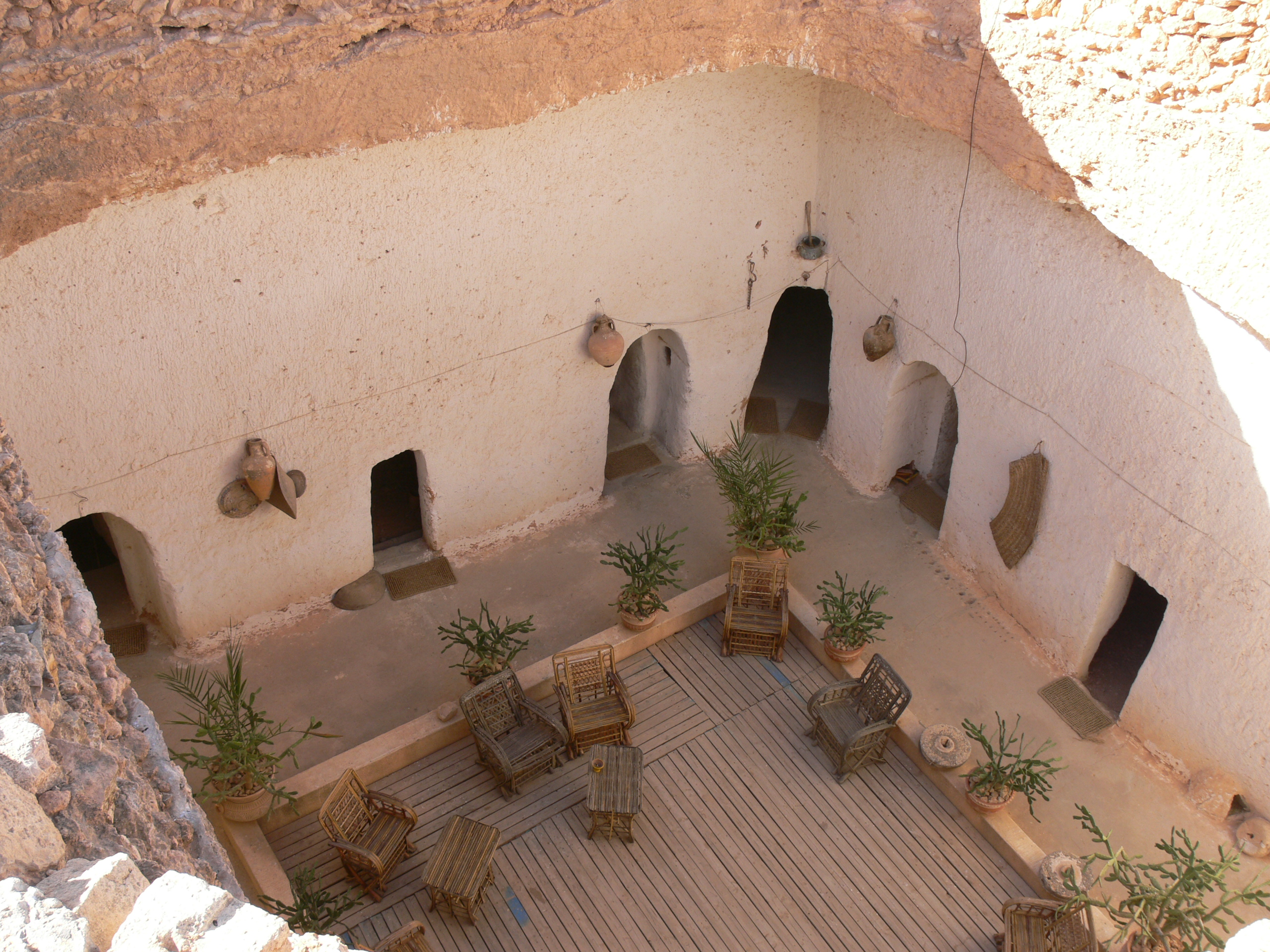 Troglodyte building in Gharyan (Djebel Nefusa, Libya)